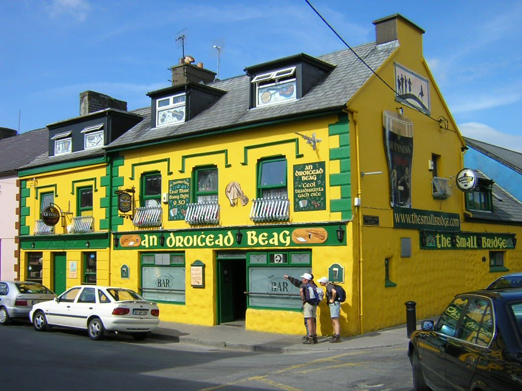 Pubs in Ireland